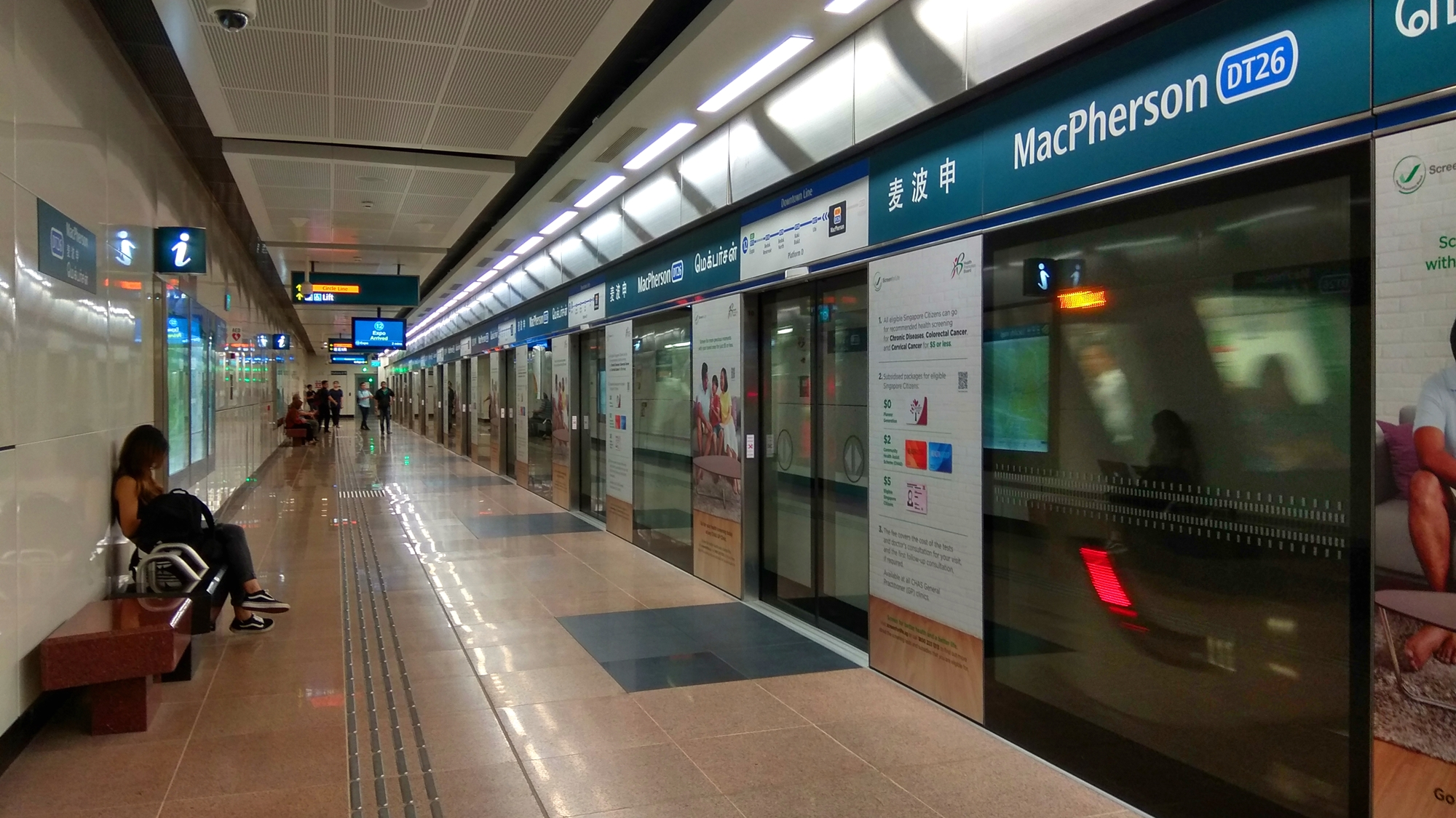 DT26 MacPherson Station's Expo bound platform.